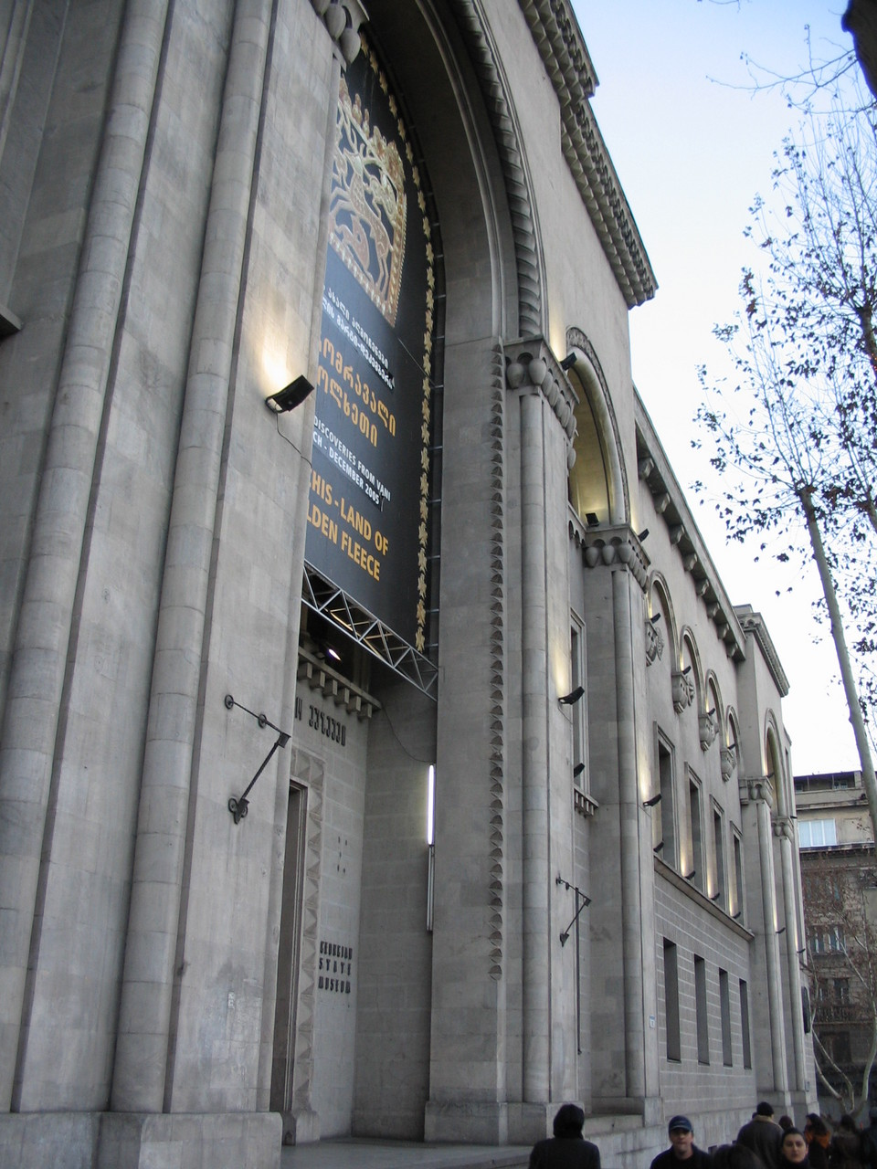 Rustaveli museum